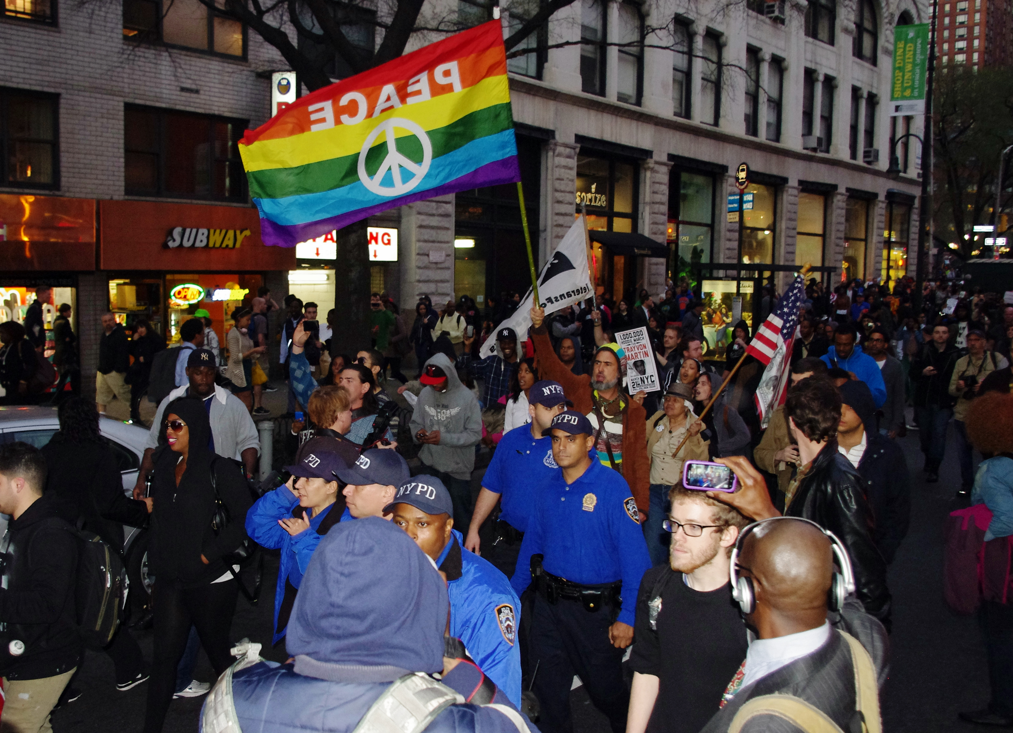 Photos from the Million Hoodies Union Square protest against Trayvon Martin's shooting death in Sanford, Florida.